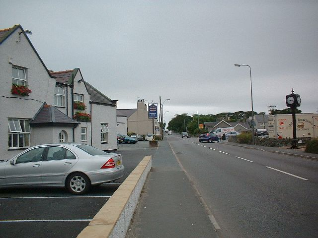 Y Fali. This image shows the A5 running through Y Fali (Valley) towards Holyhead. The lights at the junction of the A5 and the A5025 were behind me when I took this picture. The A5 used to be the main route onto Holyead and the ferry until the A55T was opened.